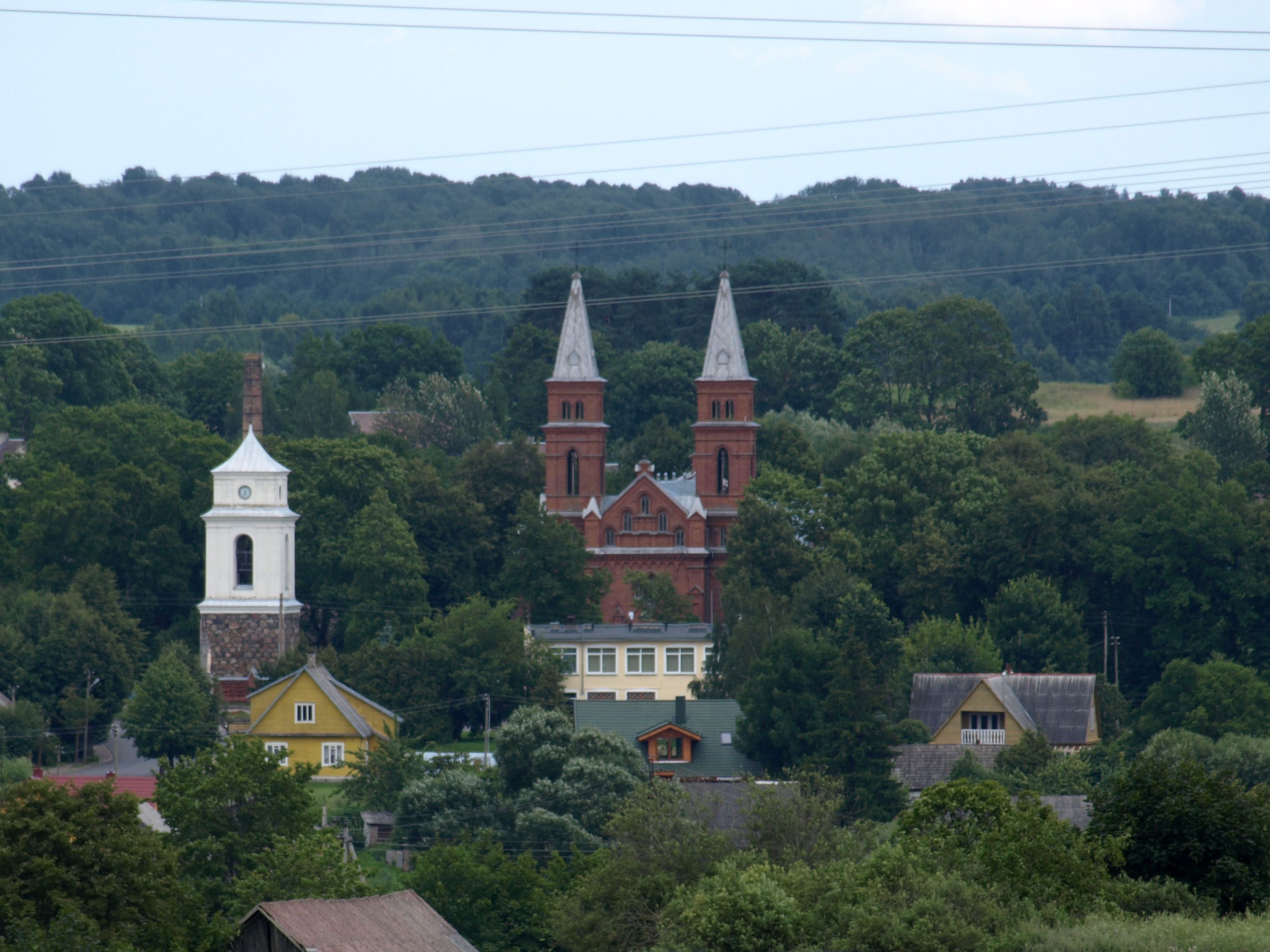 Užpaliai